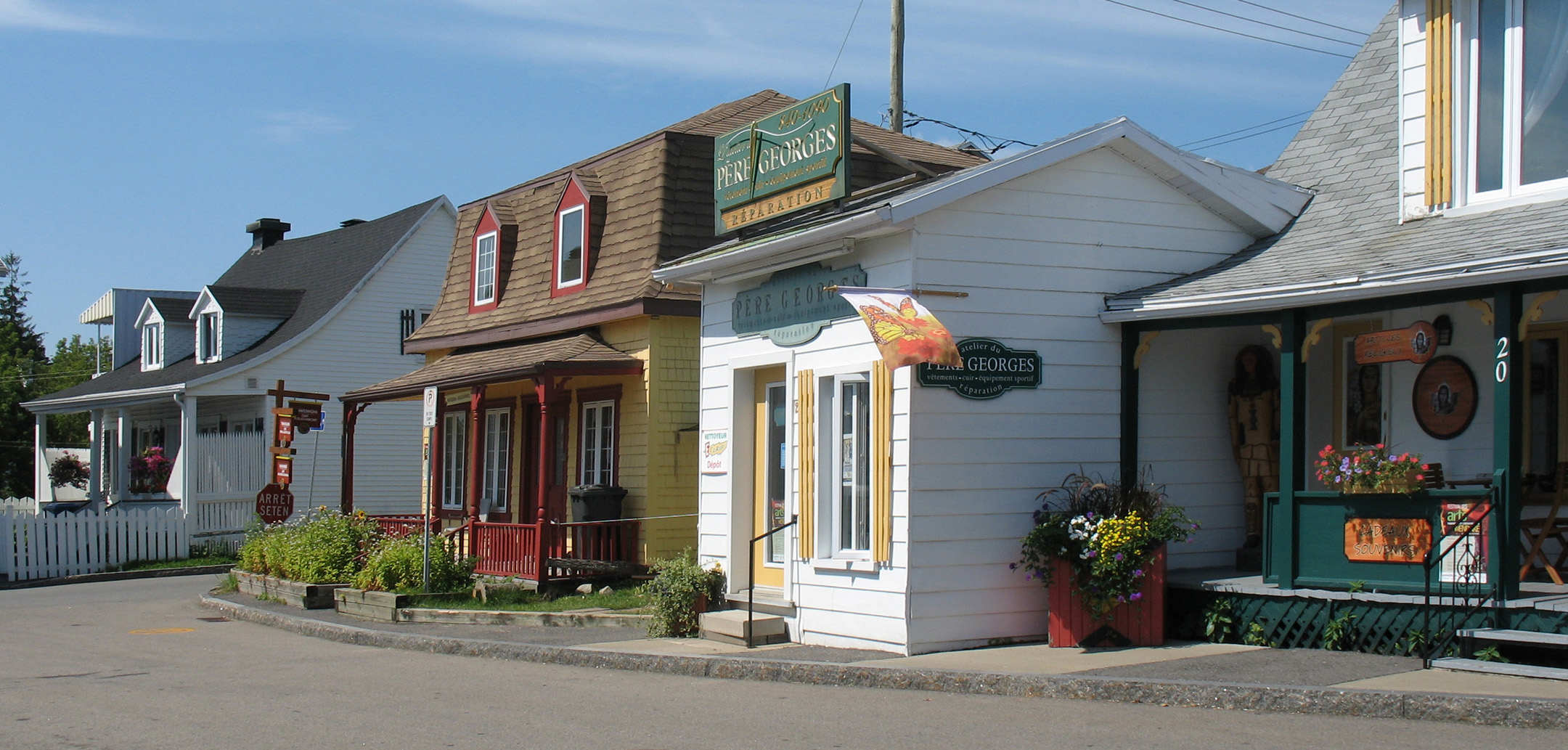 Wendake